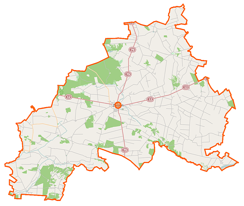 Map of Powiat zwoleński, Poland This map of Powiat zwoleński was created from OpenStreetMap project data, collected by the community. This map may be incomplete, and may contain errors. Don't rely solely on it for navigation. Border coordinates51.507021.3142←↕→21.873151.2133